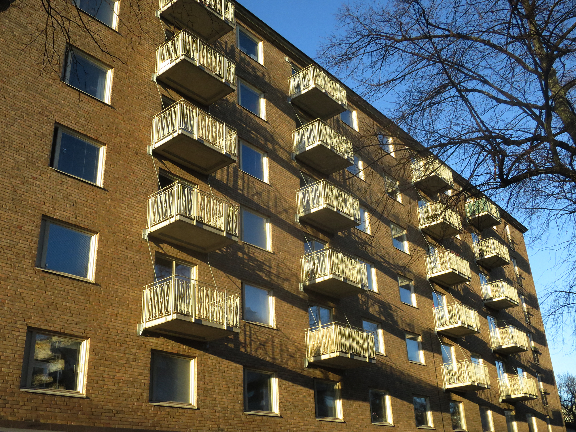 Stockholm architecture. 1940-41. Architect Olle Zetterberg, contractor Nils Nessen